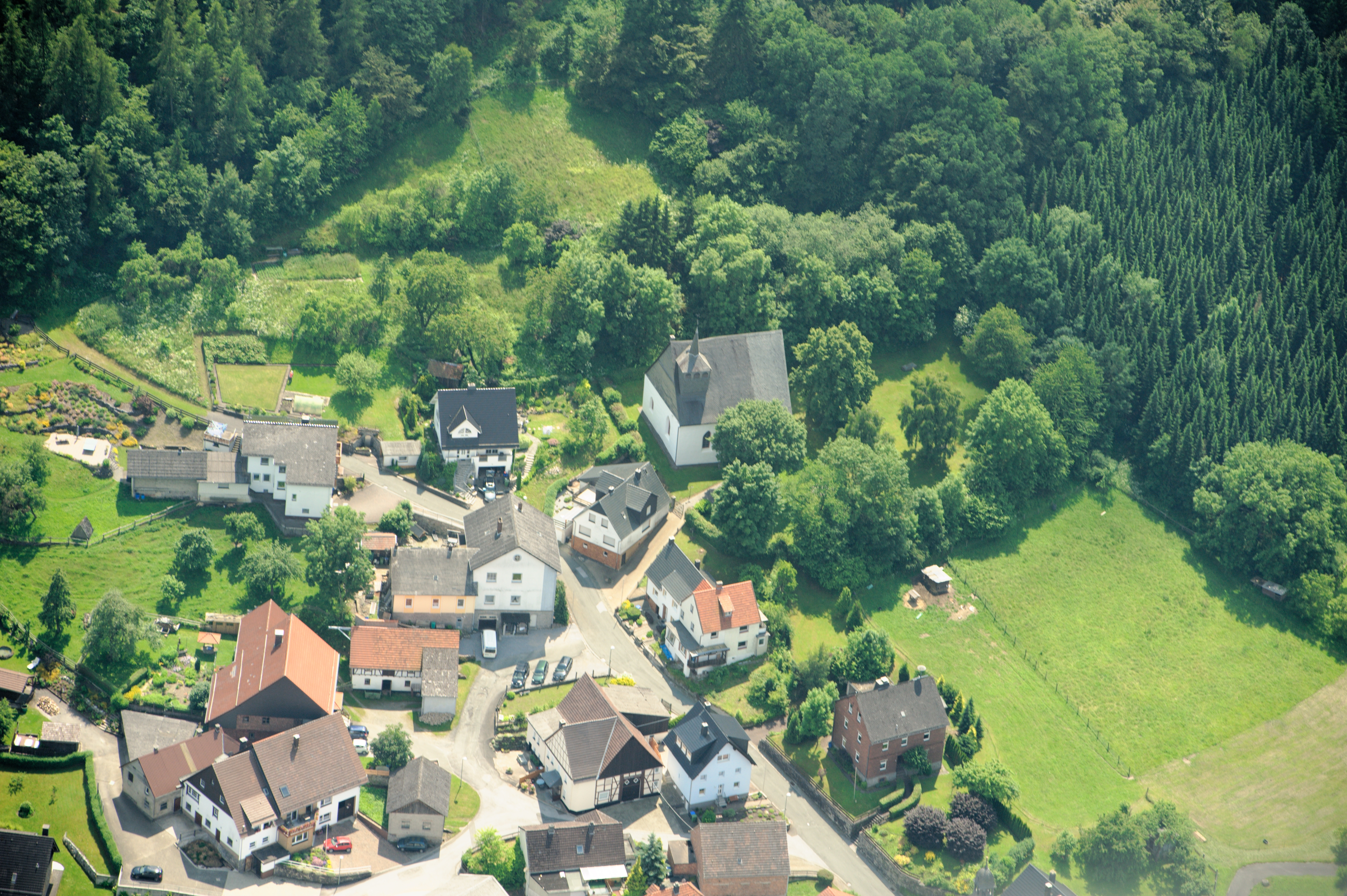 Fotoflug Sauerland-Ost, Padberg, Kirche St. Peter The making of this document was supported by the Community-Budget of Wikimedia Germany.